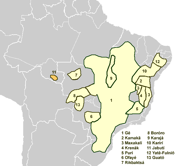 Jabutían languages (orange), (probable spread area at the time of contact) Source: Ribeiro, Eduardo & Van der Voort, Hein (2010) “Nimuendajú was right: The inclusion of the Jabuti language family in the Macro-Jê stock”, International Journal of American Linguistics, 76/4.